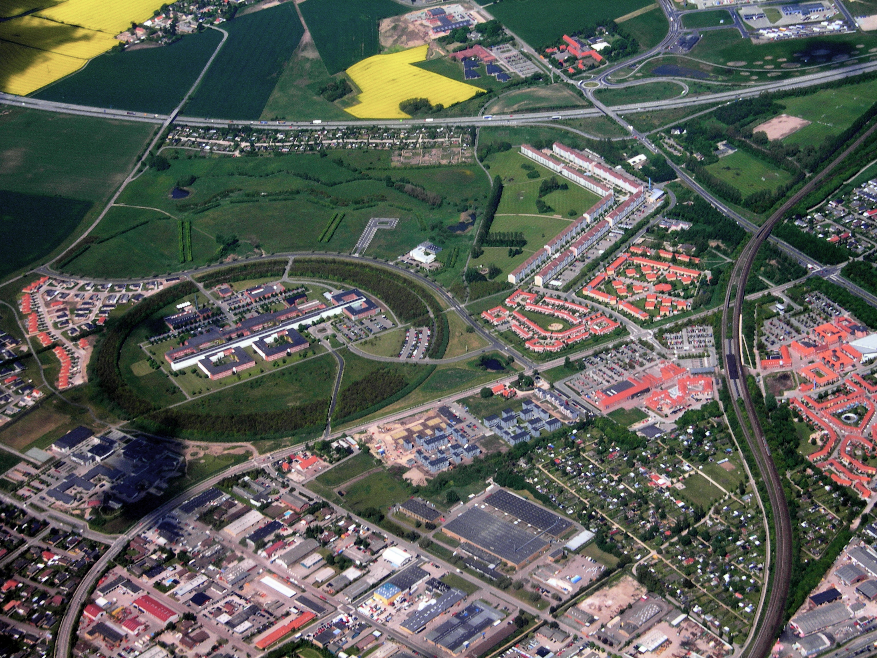 A hospital campus surrounded by a circular treeline. North of it buildings in chevron formation. Køge, Denmark.